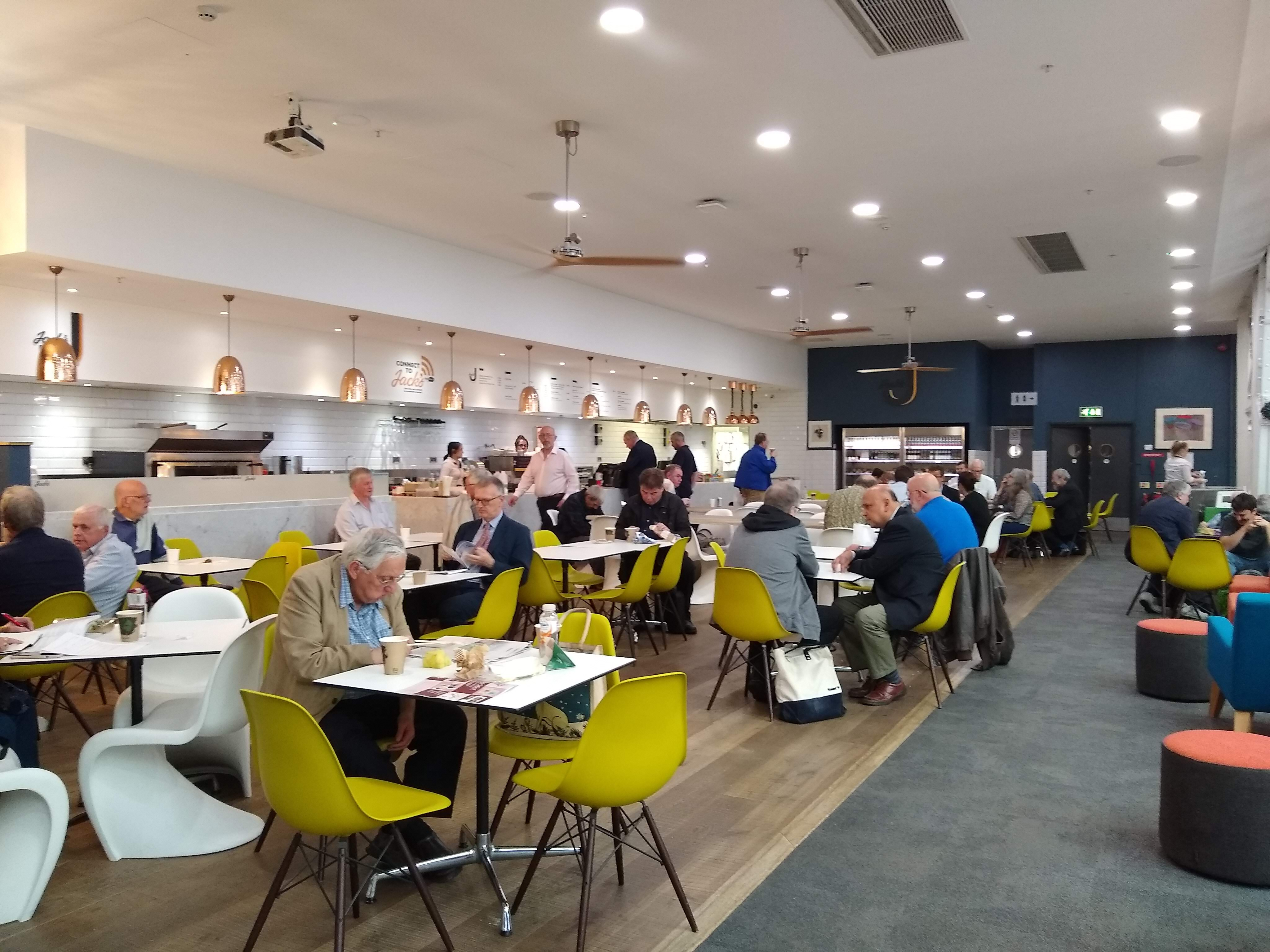 Autumn Stampex 2019